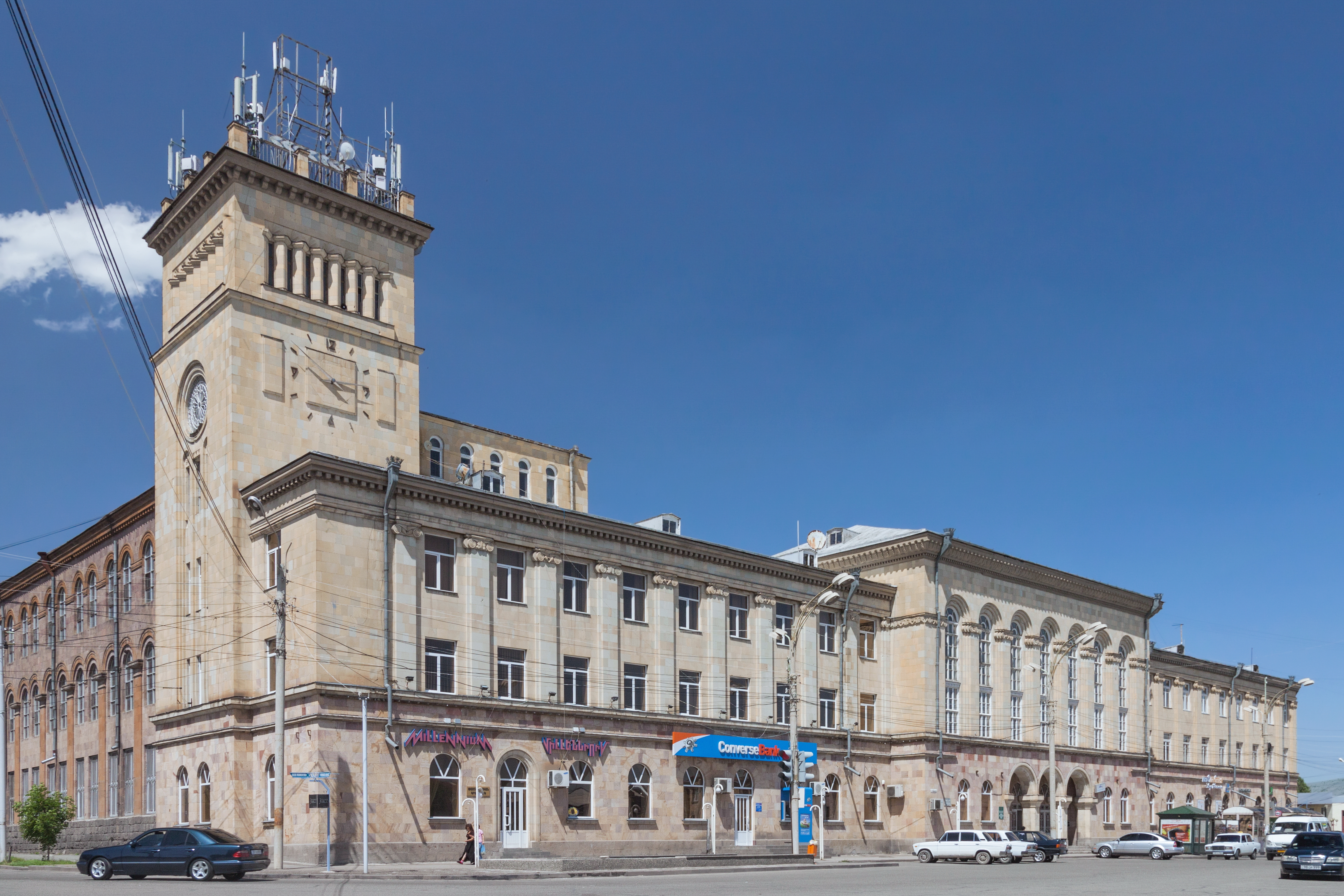 Former workshop of stocking factory. Gyumri, Shirak Province, Armenia.